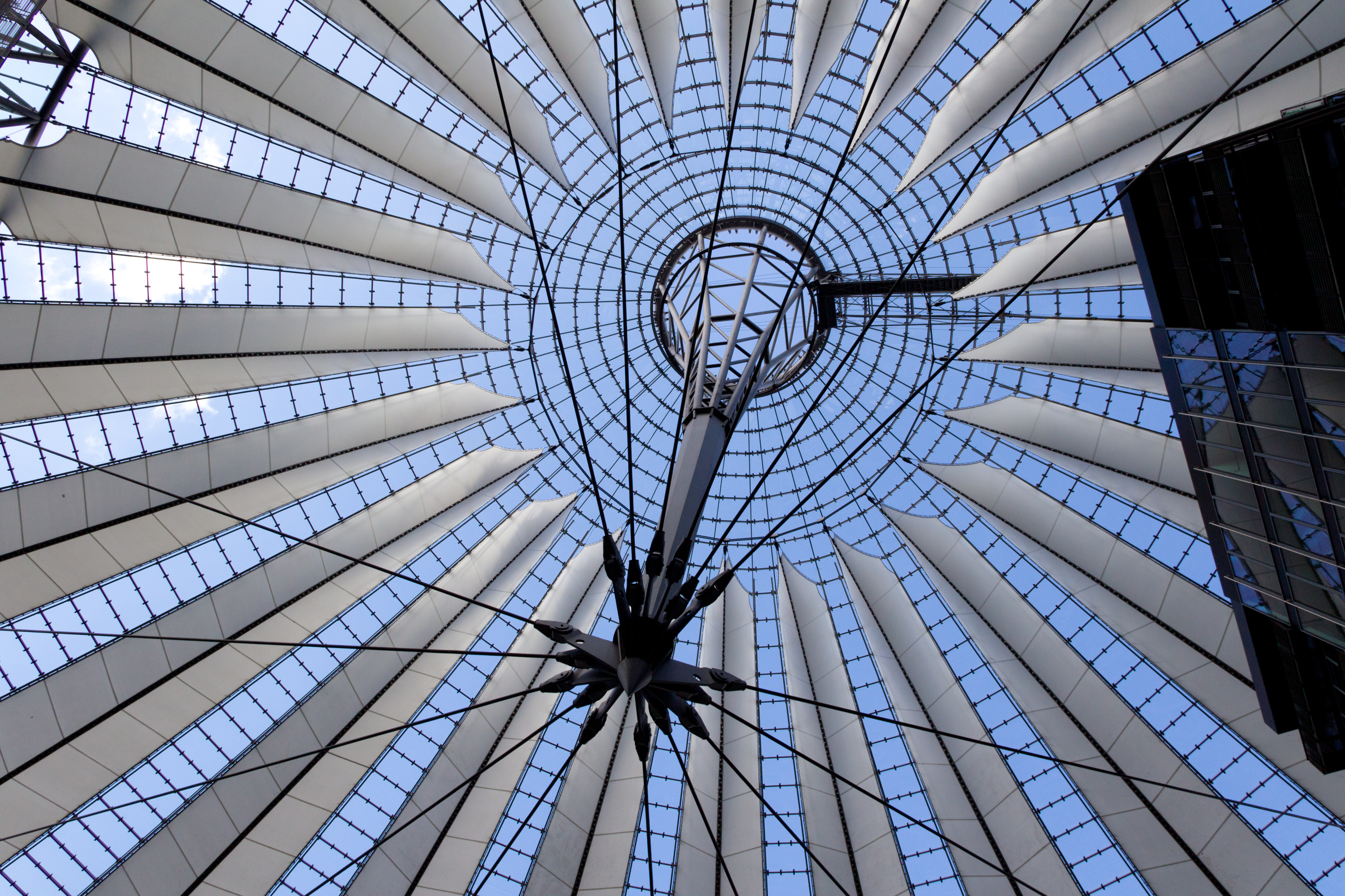 The glass roof over the Berlin Sony Center